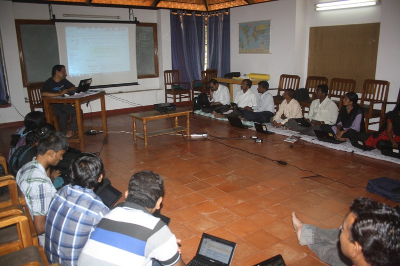 Wikipedia workshop for Kalike team at Visthar, Bangalore on April 18, 2013